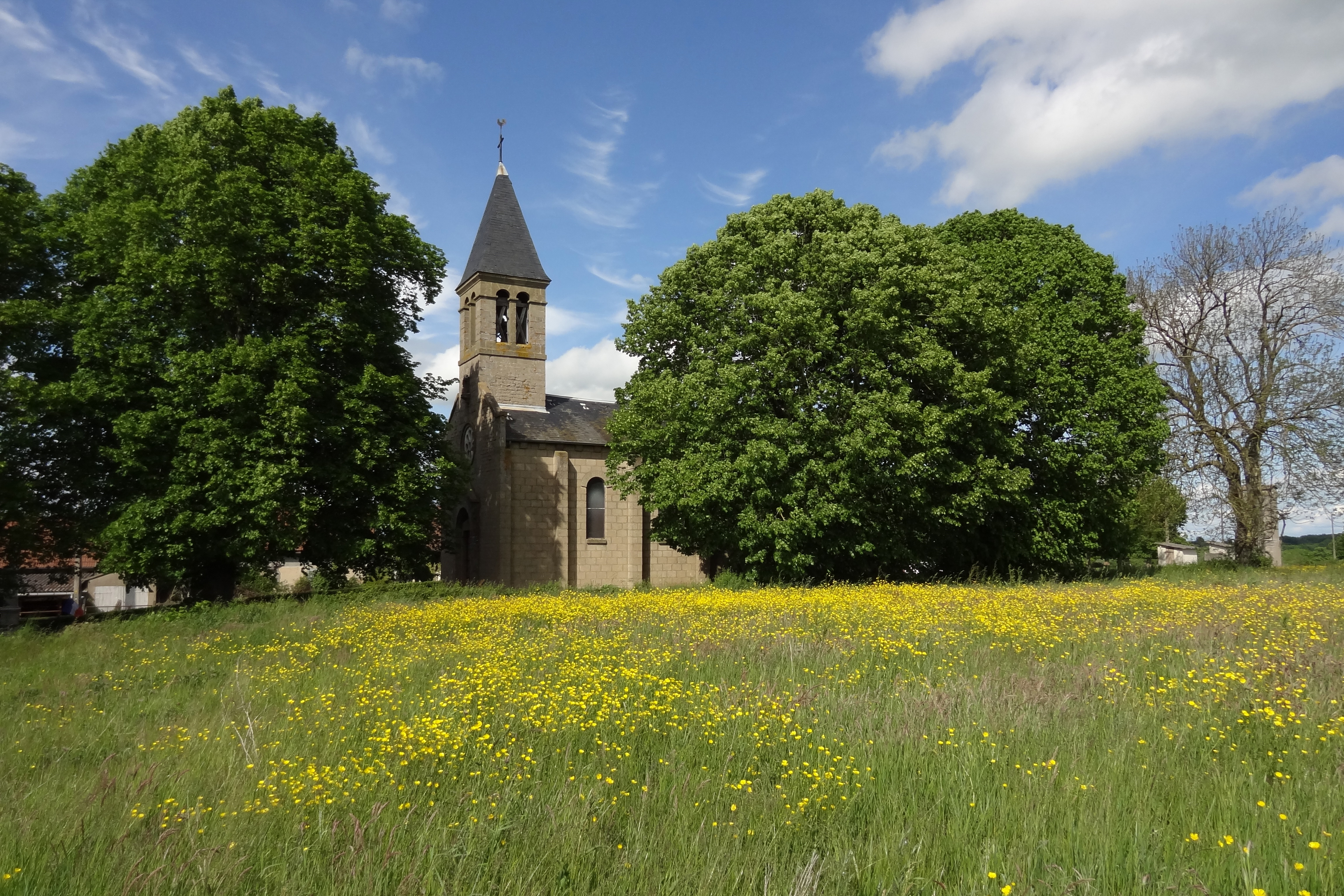 St-Pierre church at Mercy, Allier, France